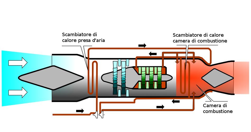 Schematic diagram of a regenerative air turboramjet (ATR)